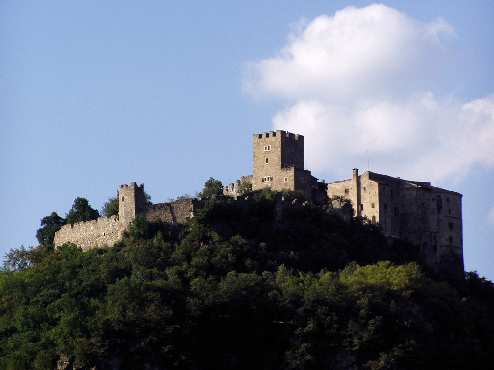 Castello Pergine, Pergine Valsugana, Italy.